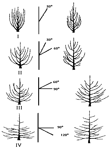 Port des pommiers - Apple growth habit classification by lespinasse